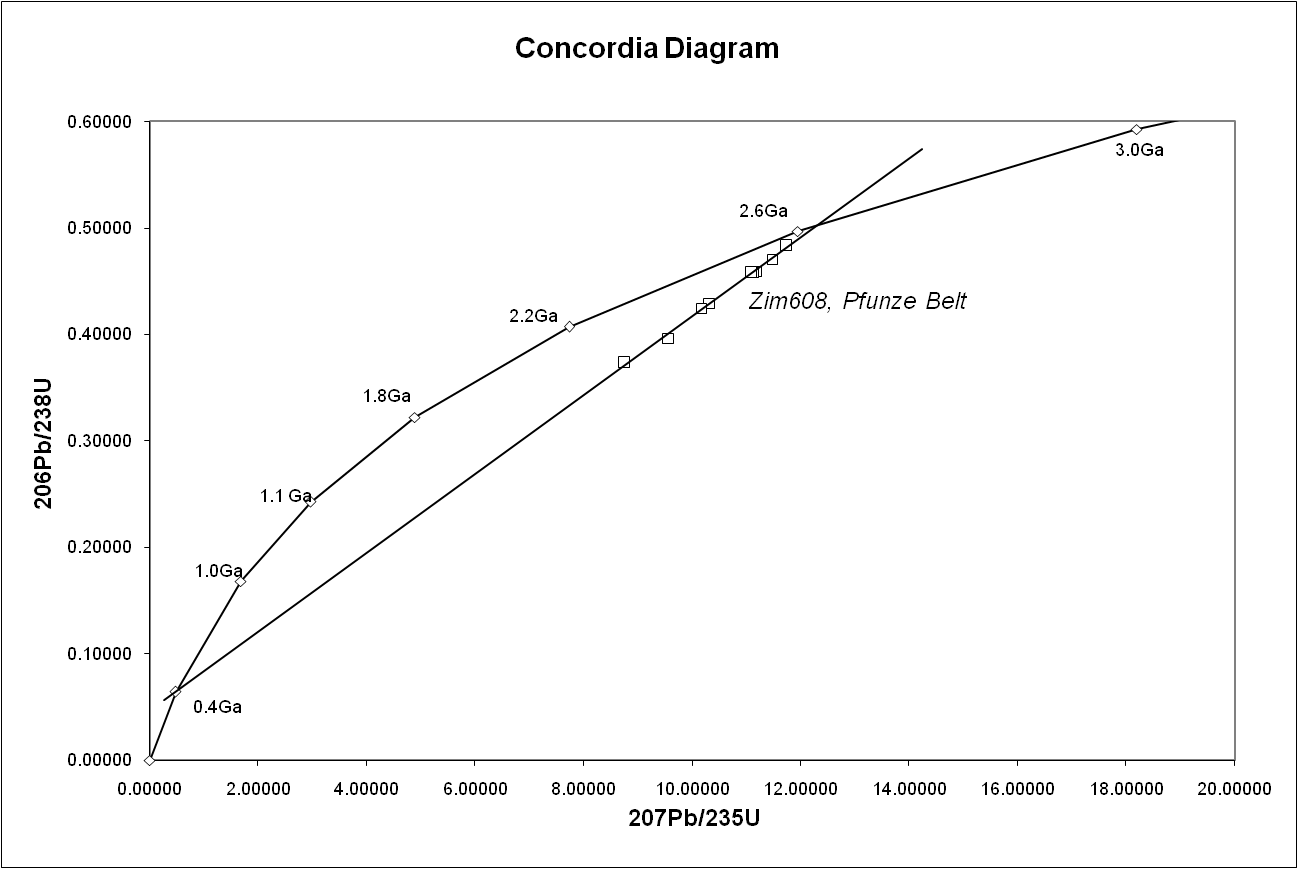 Concordia diagram, as used in U-Pb dating, with data from the Pfunze Belt, Zimbabwe. Diagram own work using data points from: Vinyu, M.L., Hanson, R.E., Martin, M.W., Bowring, S.A., Jelsma, H.A. and Dirks, P.H.G.M. 2001. U-Pb zircon ages from a craton-margin Archaean orogenic belt in northern Zimbabwe. Journal of African Earth Sciences, 32, 103-l14.